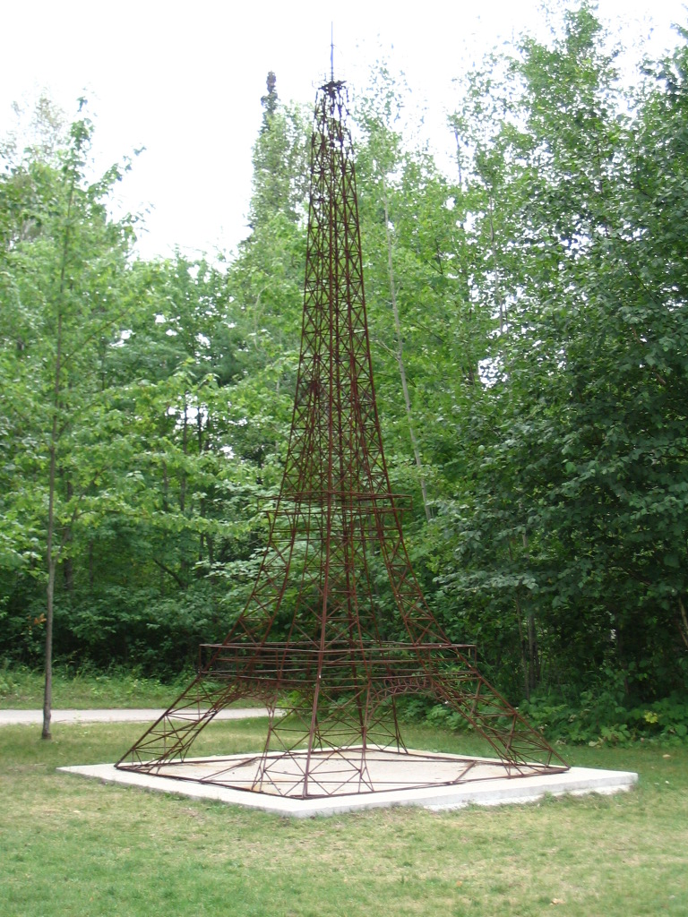 Lac du Bois, the French language village of Concordia Language Villages, has a to-scale model miniature Eiffel Tower at their site near Bemidji, Minnesota, USA.